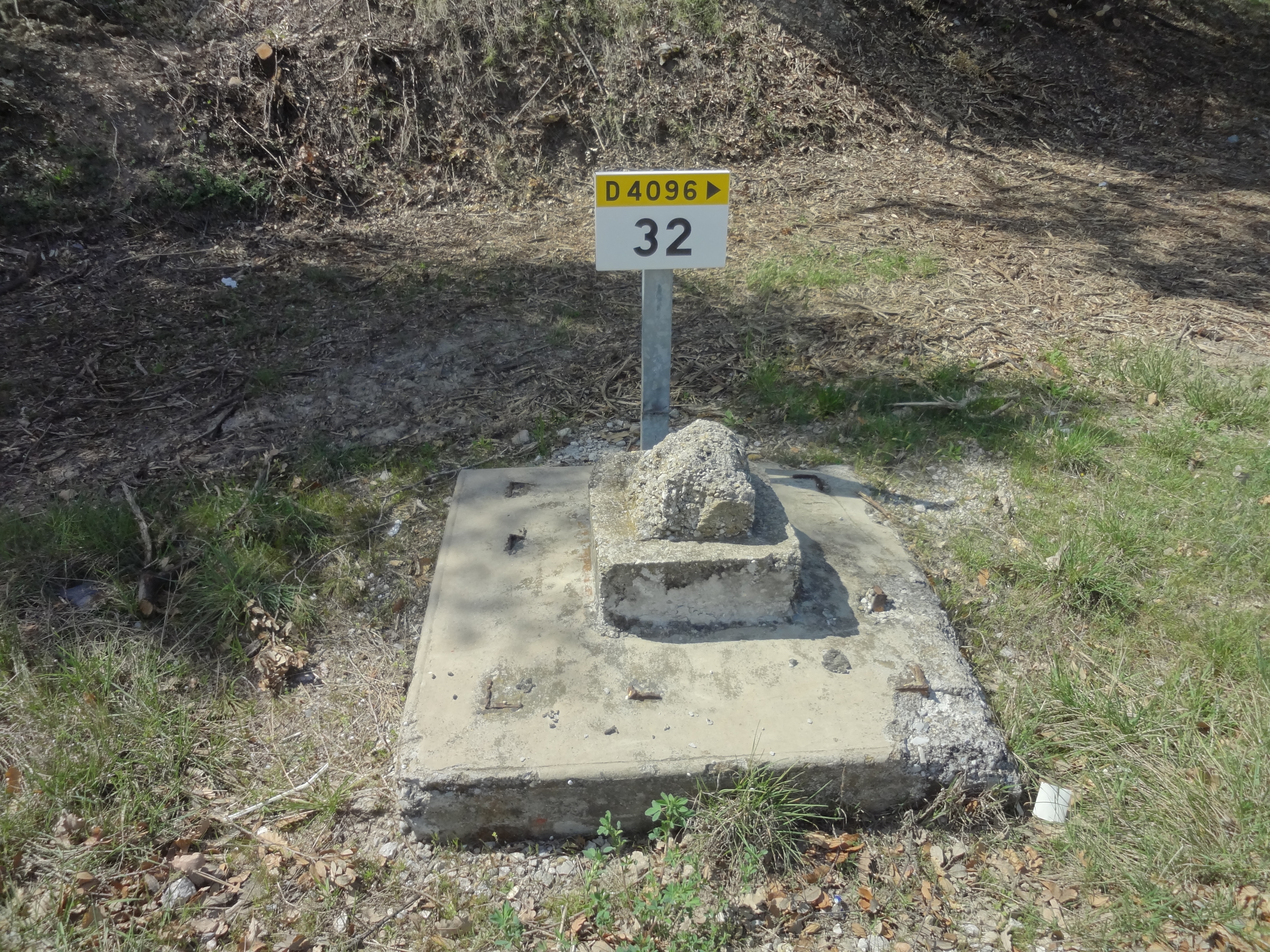 One of the elements still visible from the Dominici Affaire (August 1952): Kilometer post 32 of the RN 96 (now DR 4096), the precise point where Drummond stopped (the original has disappeared)